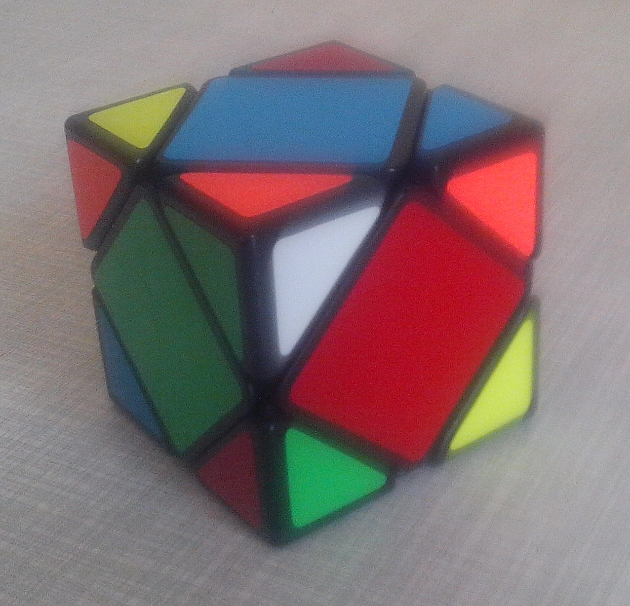 Skewb unsolved